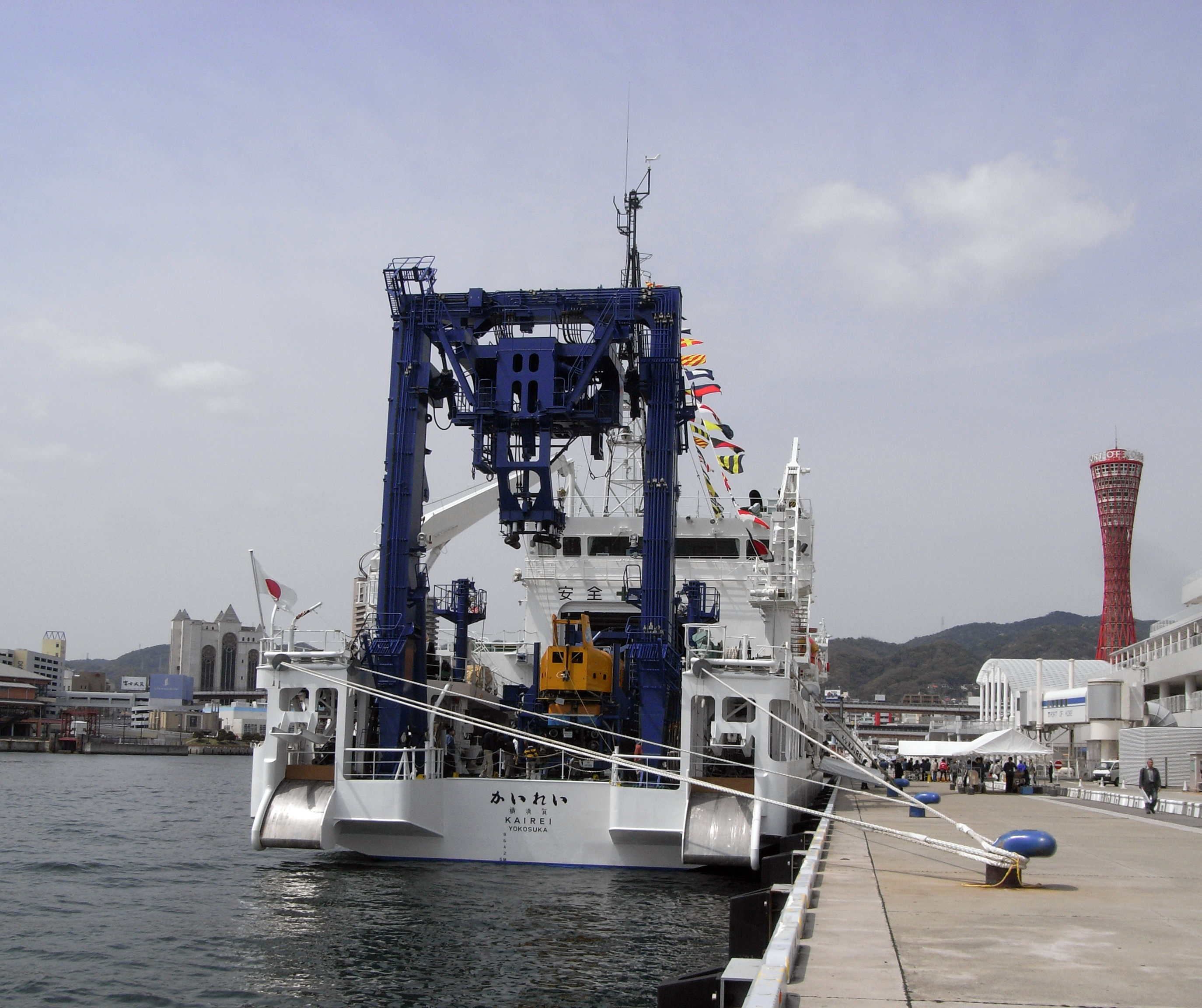 KAIREI at the port of Kobe, Japan.